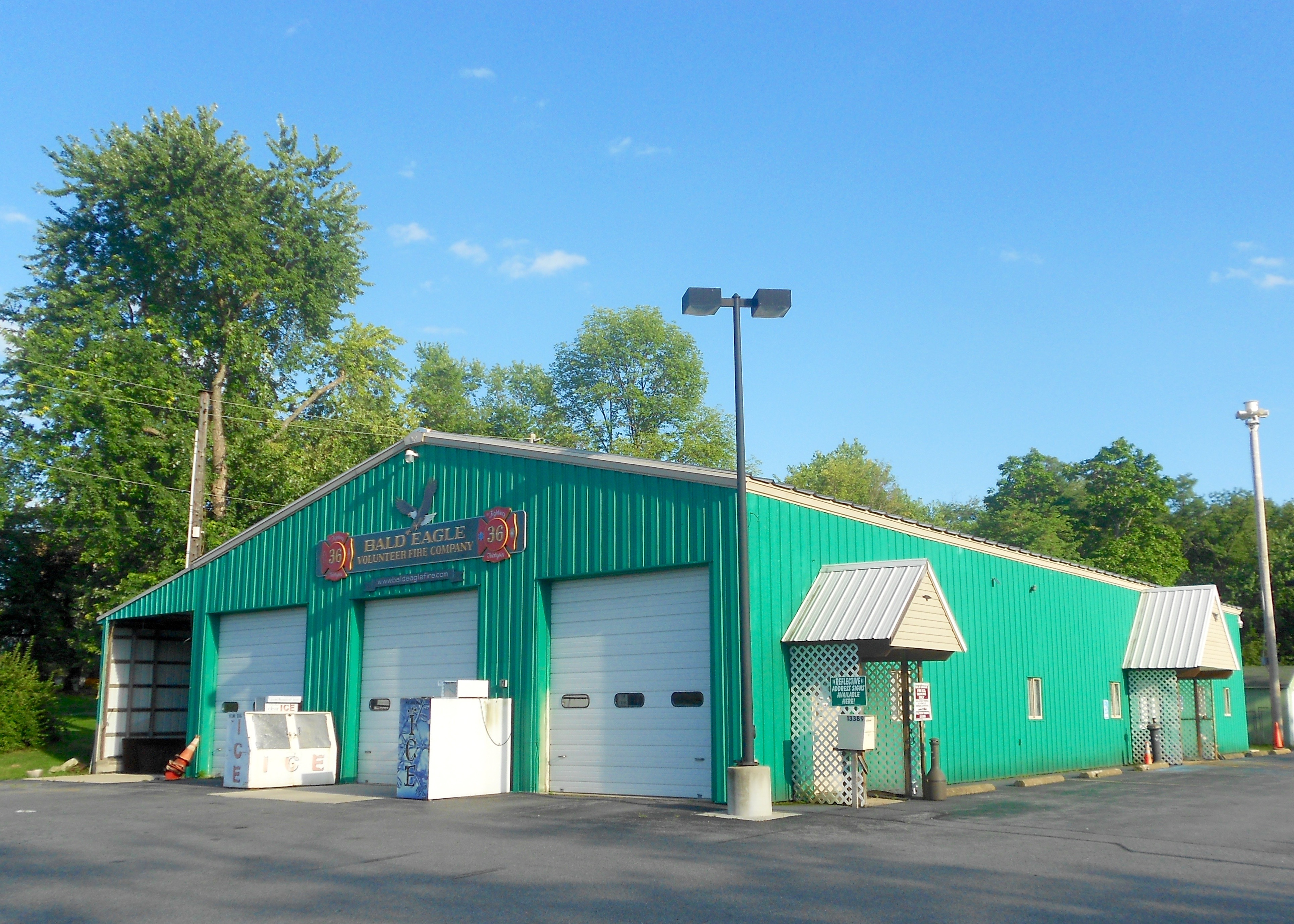 Bald Eagle Volunteer Fire Department in the unincorporated village of Bald Eagle, Snyder Township, Blair County, Pennsylvania